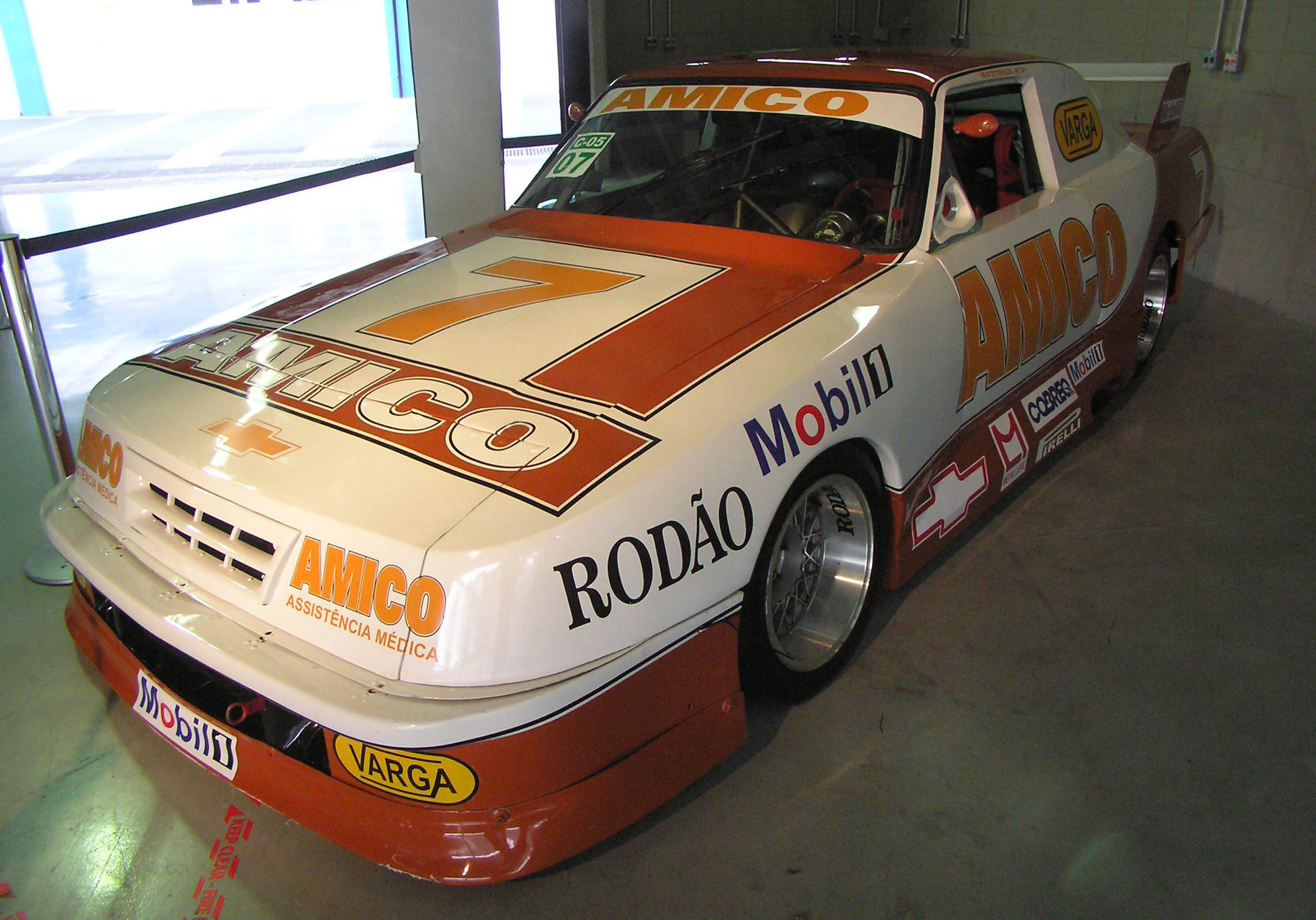 Stock Car Brasil: Wilson Fittipaldi Junior's Chevrolet Opala in 1992. Owner: Museu do Automobilismo Brasileiro